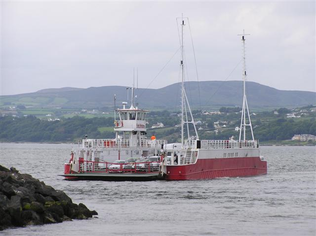 Magilligan ferry It is about to dock on the Northern Ireland side. In the background is the shore of County Donegal.